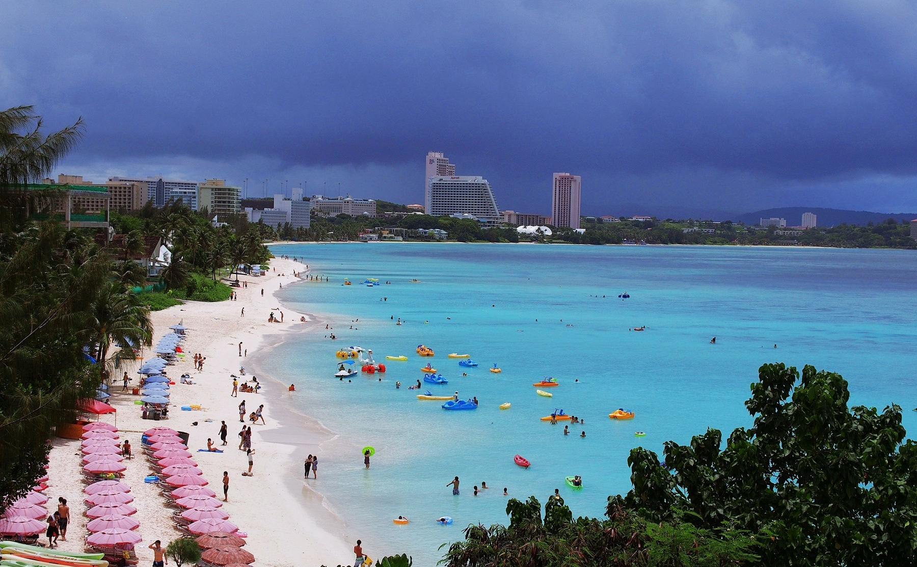 珊瑚礁 渡假村 海灘 杜夢灣 關島 by Olympus OM-D E-M5 Panasonic Lumix G X VARIO 12-35mm F2.8